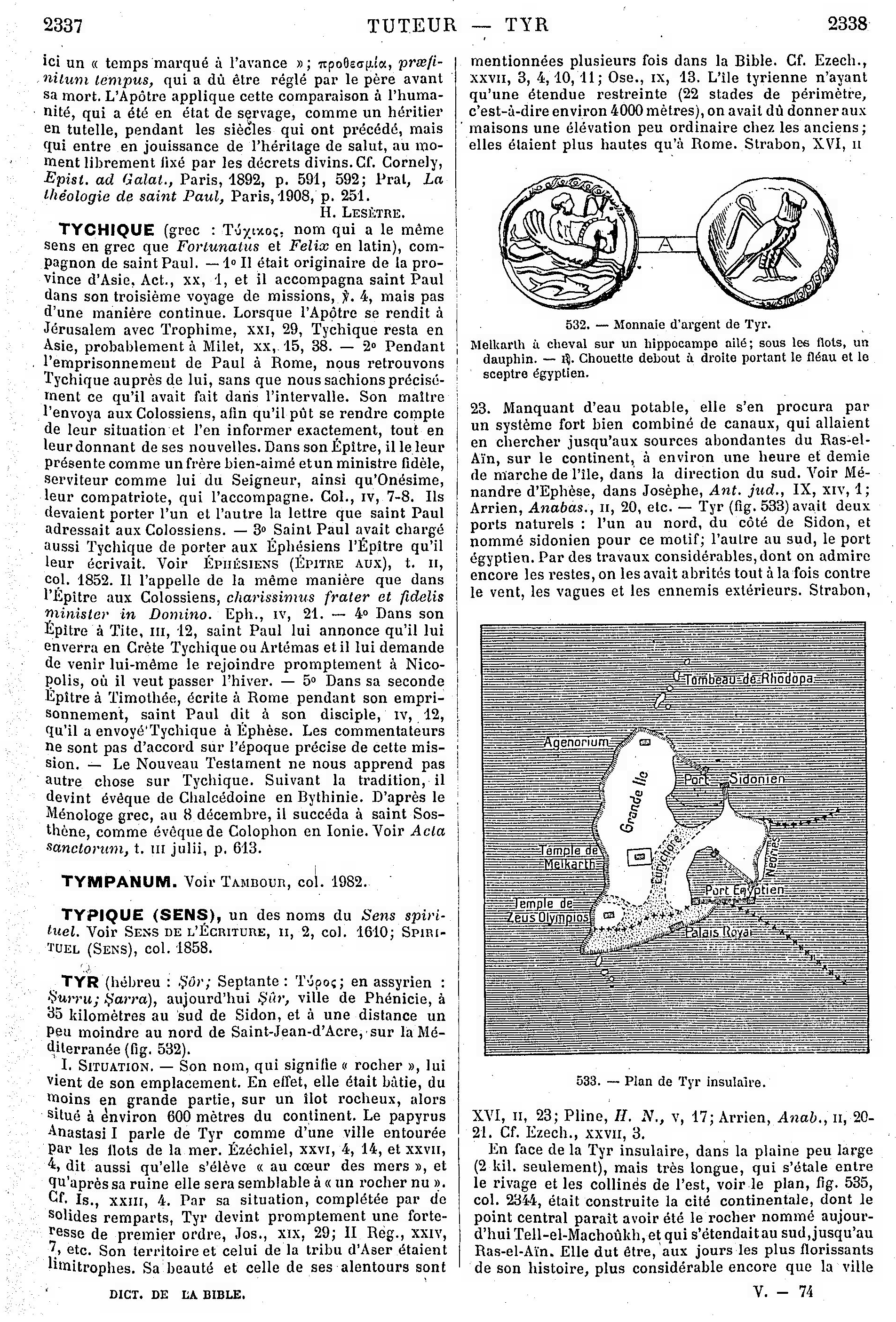 columns 2337 and 2338 of the 5th volume of the work